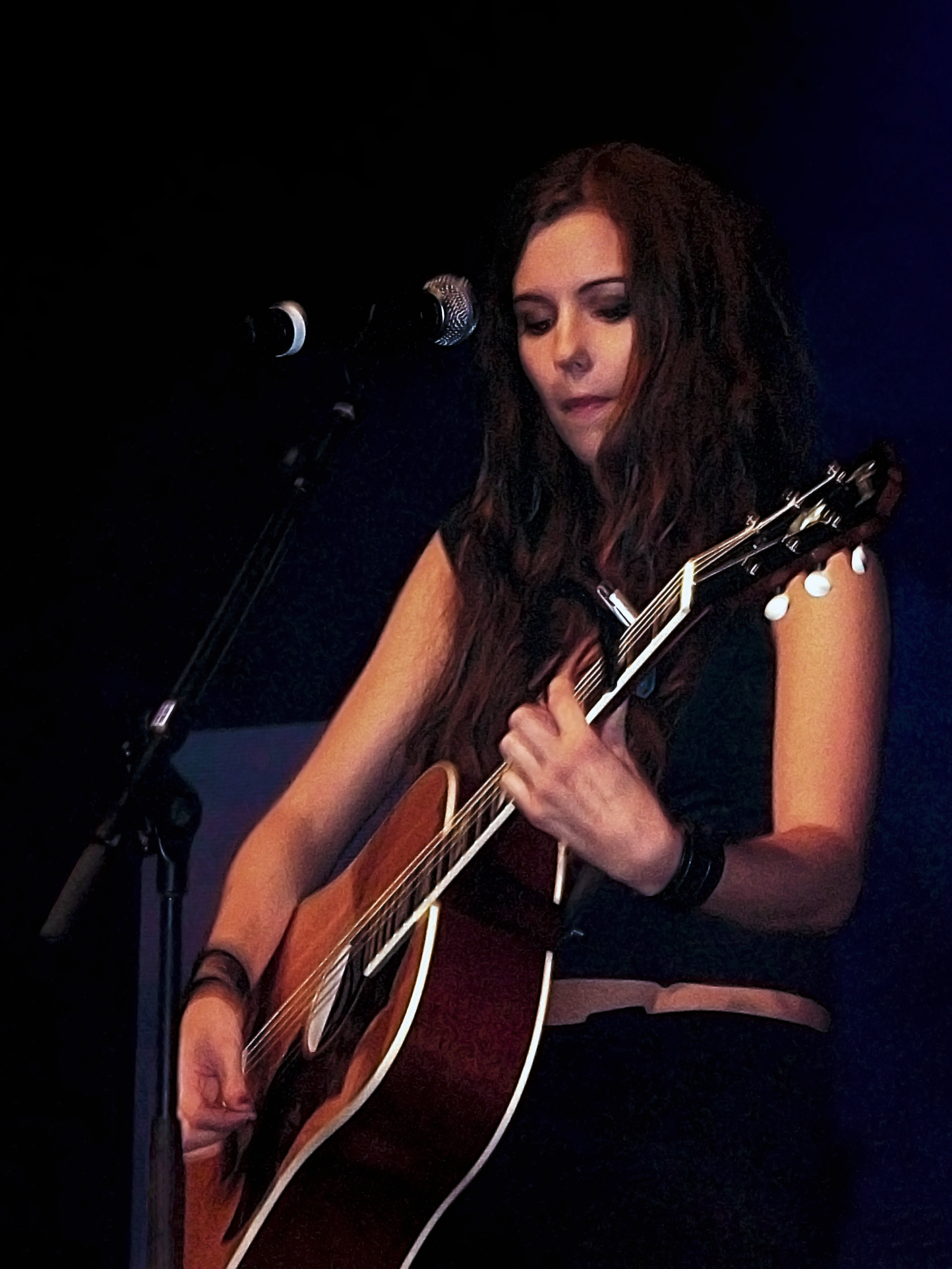 Marion Raven performing live at Tusenfryd in Norway on 22 August 2007.